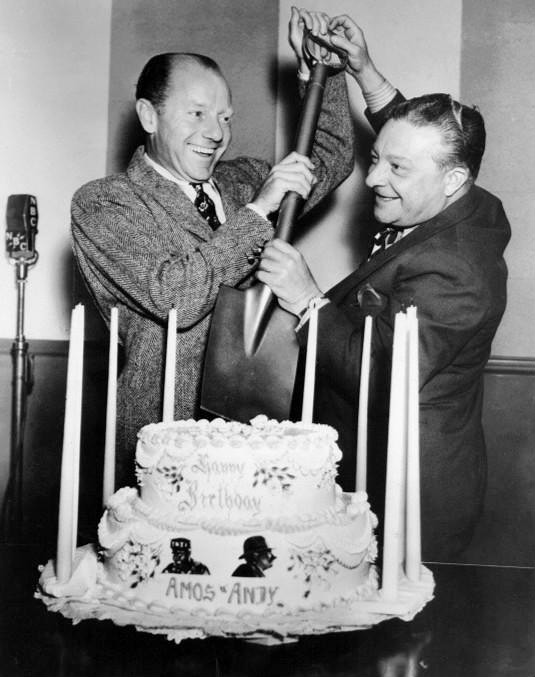 Publicity photo of Freeman Gosden (left) and Charles Correll preparing to dig into a cake for the celebration of the tenth anniversary of the radio program Amos 'n' Andy on NBC. Gosden was the voice of Amos and Kingfish, while Correll was the voice of Andy.